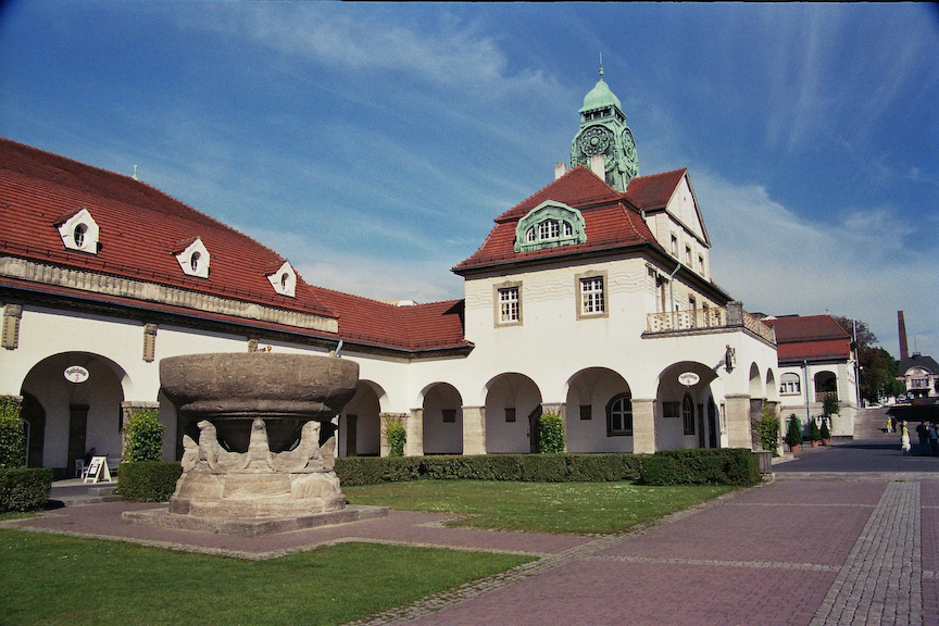 A wing of the Sprudelhof (spa) in Bad Nauheim (Hessen, Germany)